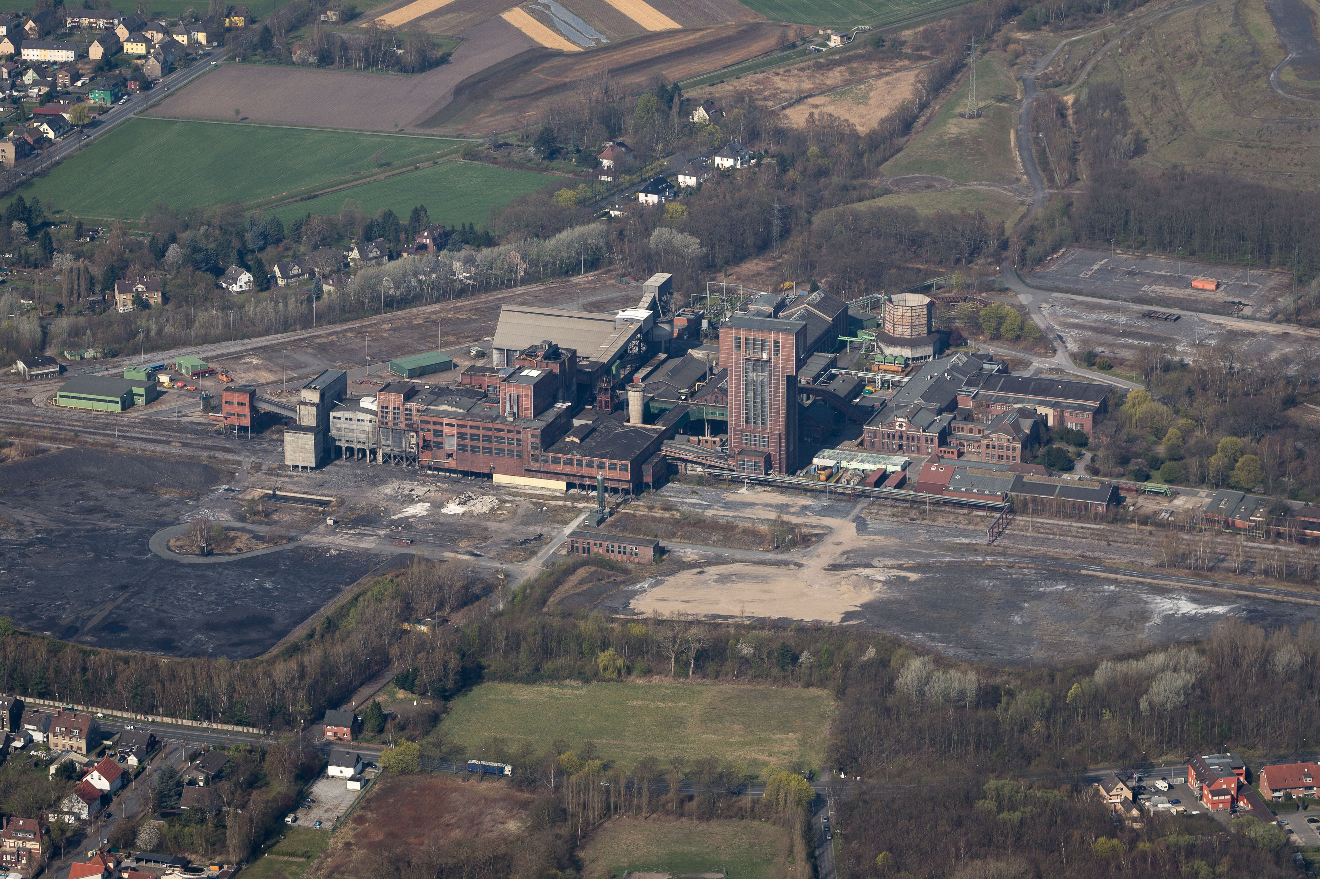 Former coal mine "Heinrich-Robert" in Hamm, Germany.